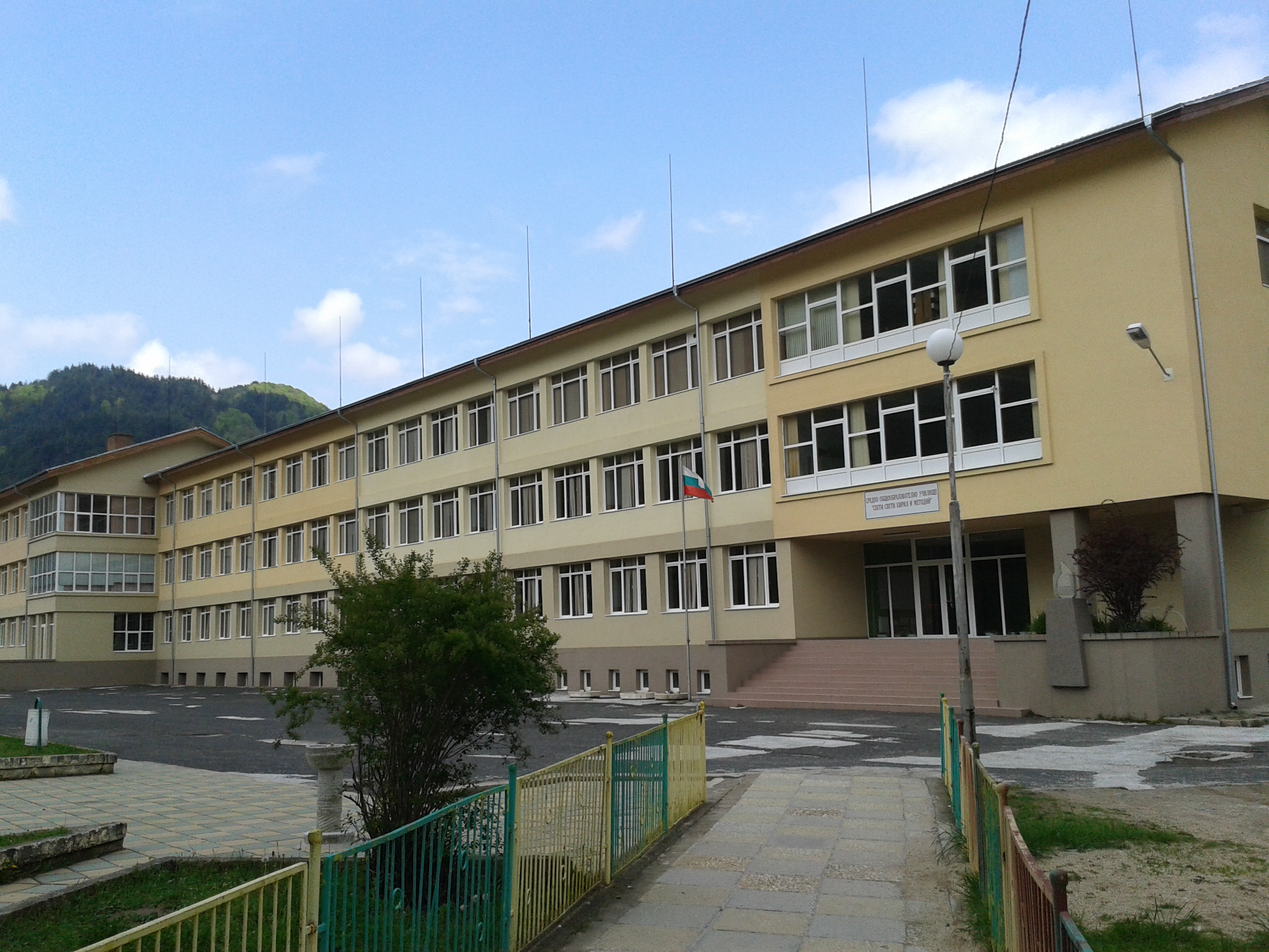 The hugh school in Rudozem, renovated with EU funds.